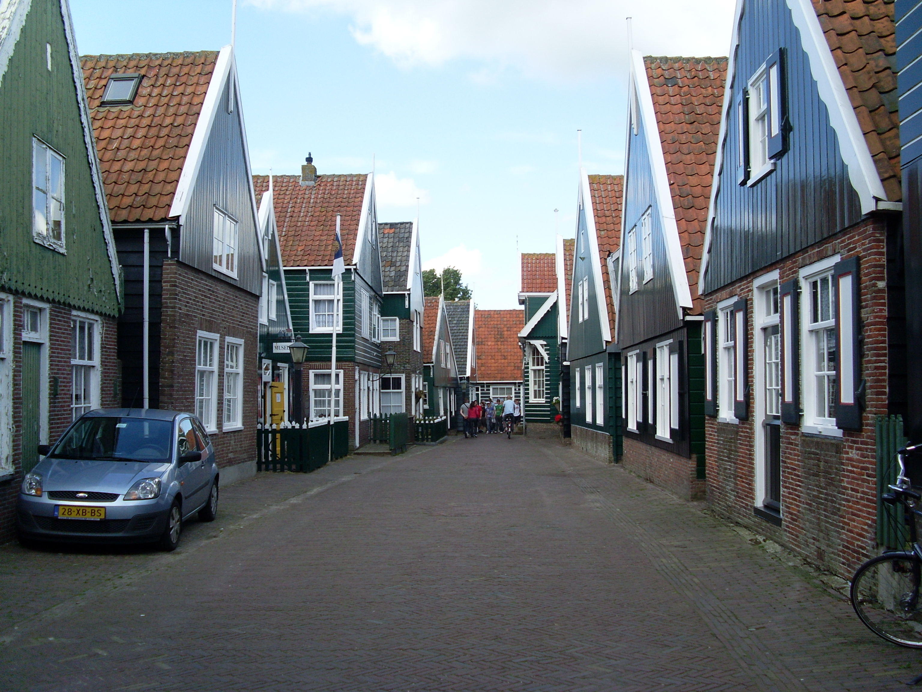 Main street from Marken, With typicaly wood houses to village.